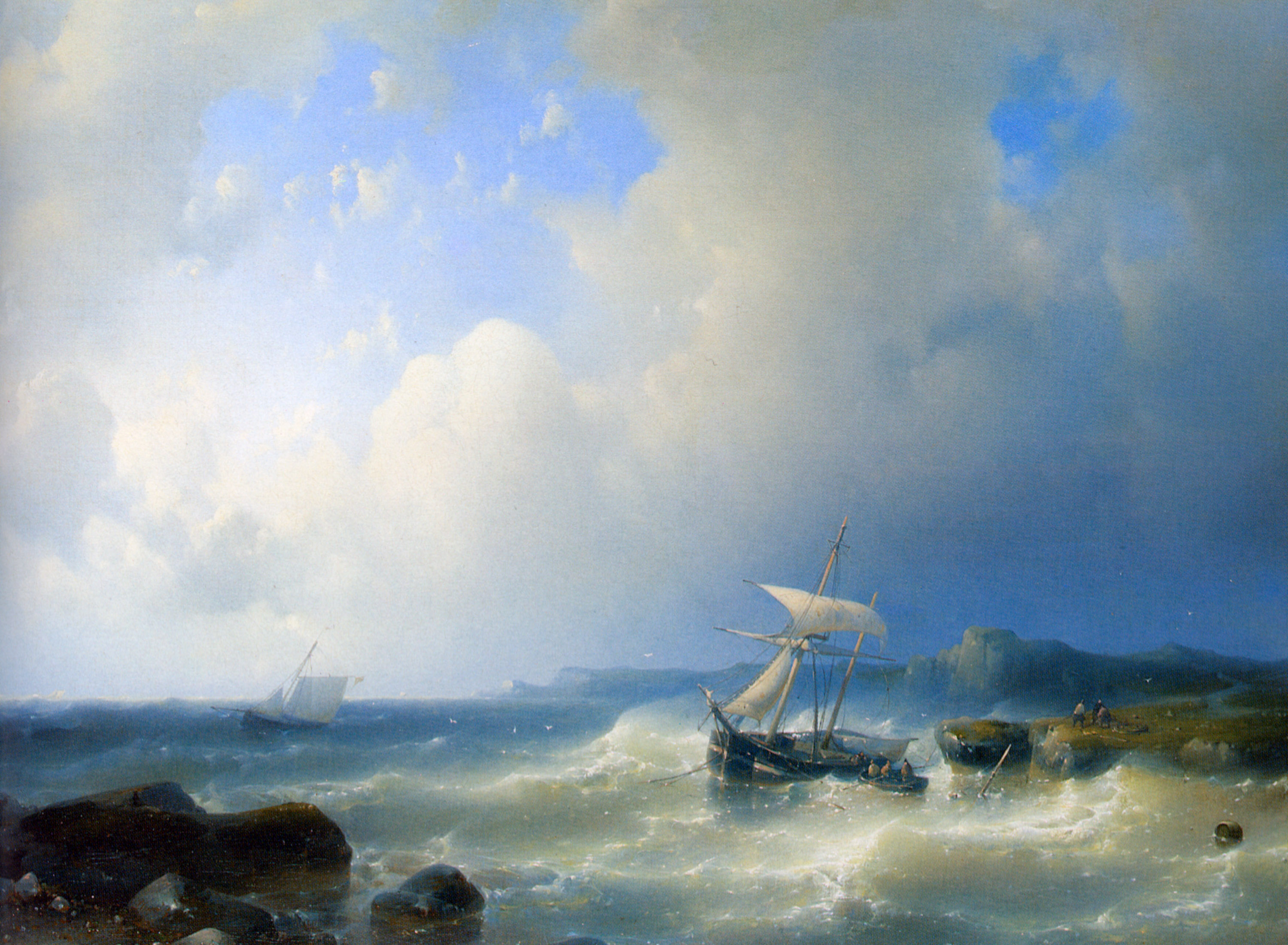 A Rocky Coast